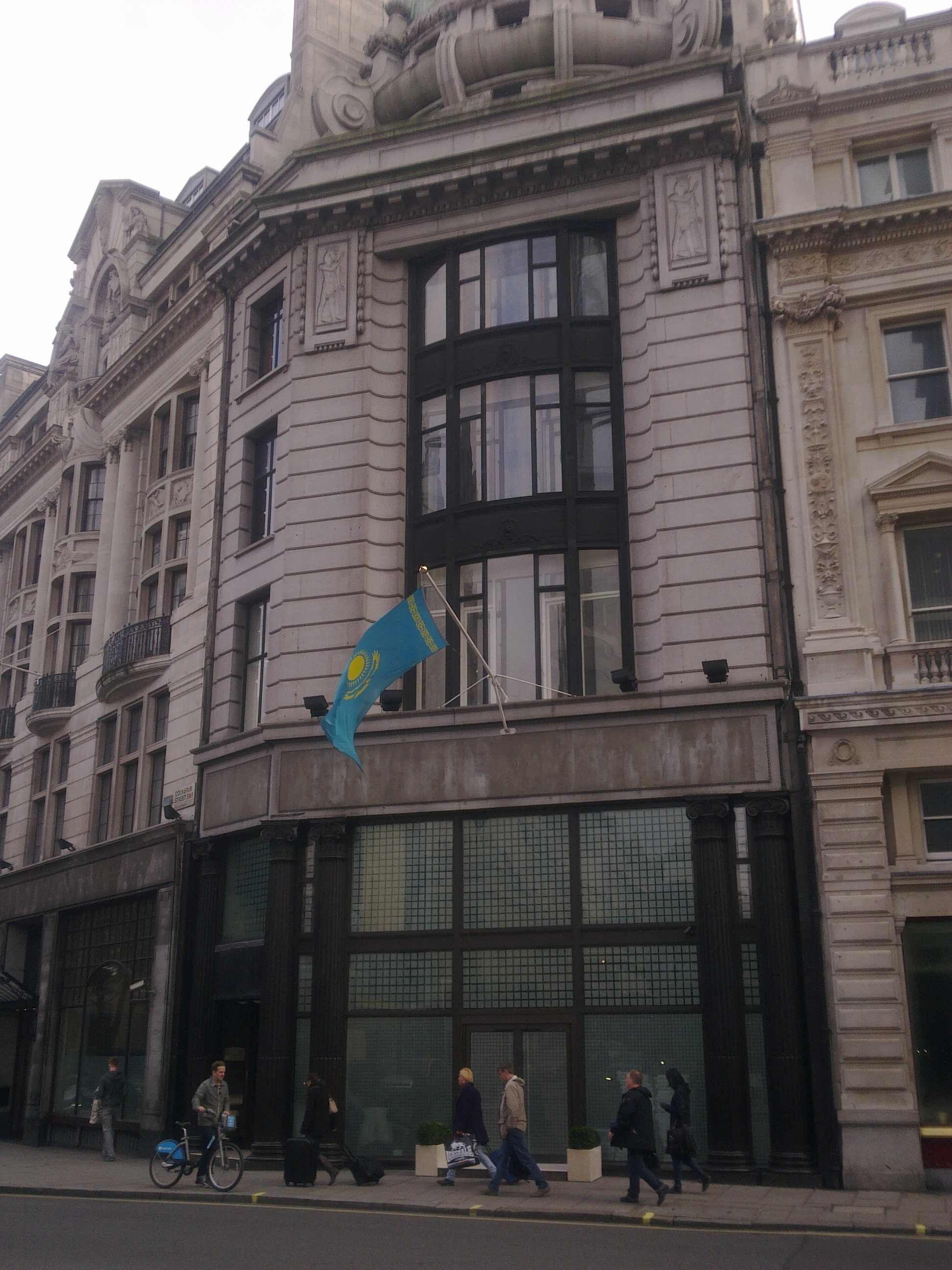 Embassy of Kazakhstan in London 1